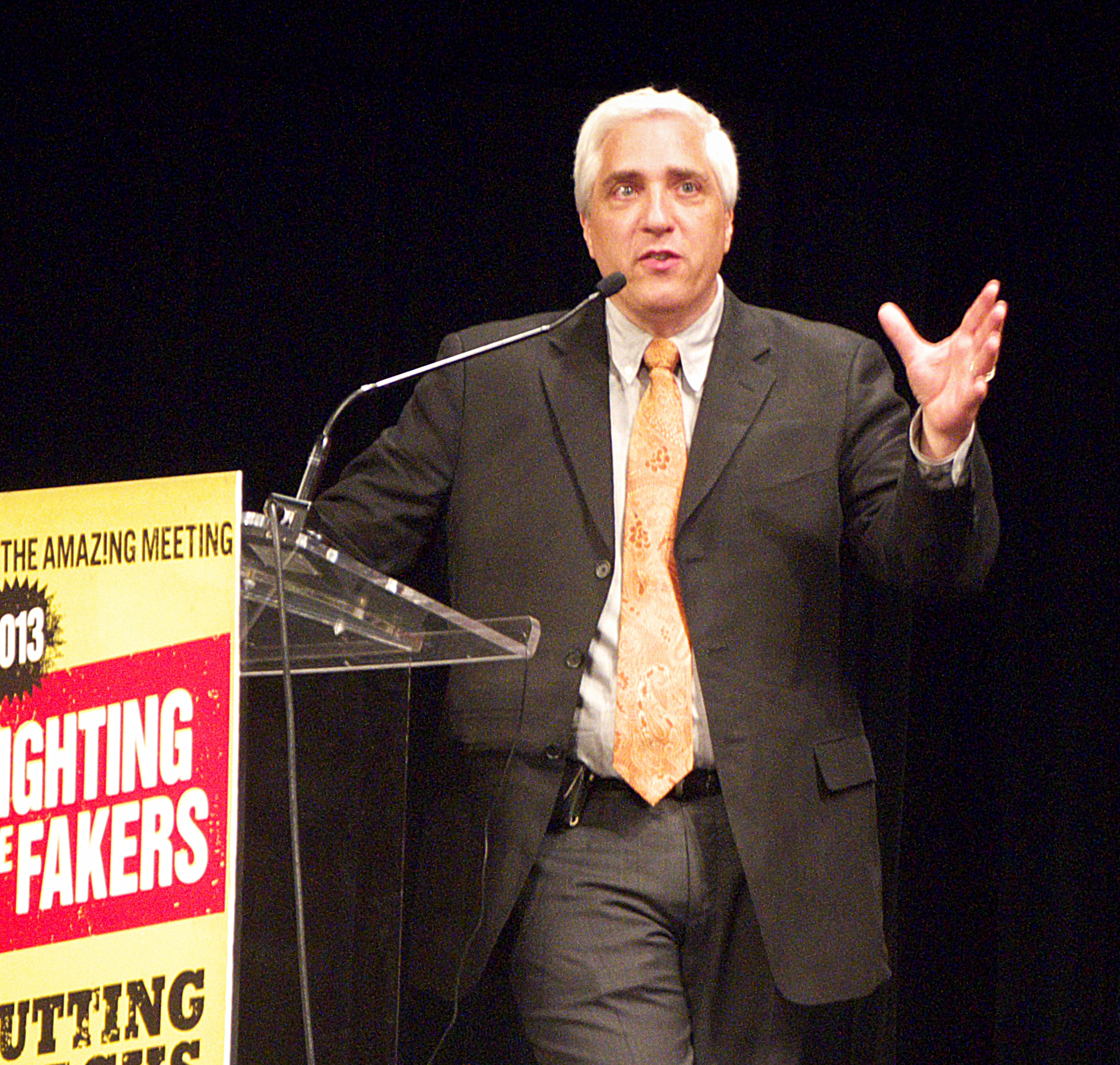 Steve Novella at TAM2013 Introducing the panel Medical Cranks and Quacks. This image is modified from the original to provide for a balanced crop, which require the addition of black space to the top of the photo.